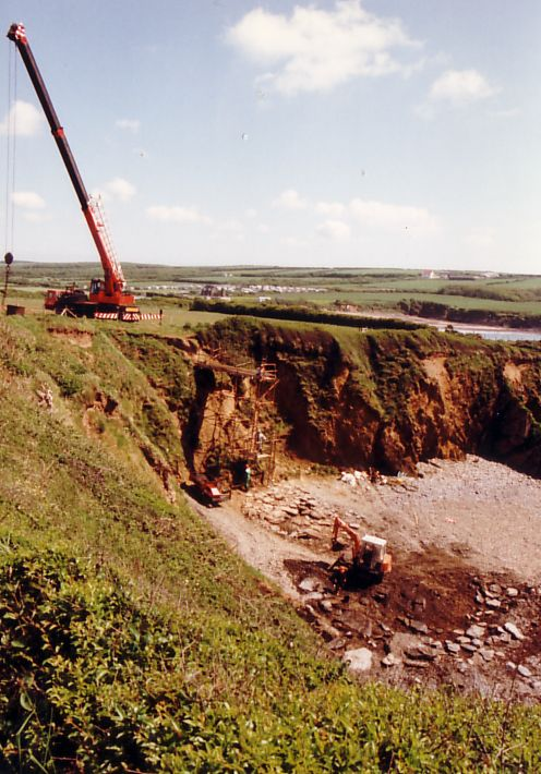 nr Angle Bay - Cleanup operation still ongoing 1 year after oilspill. Cleaning up difficult places Angle Bay and some houses of Angle are visible in the background.